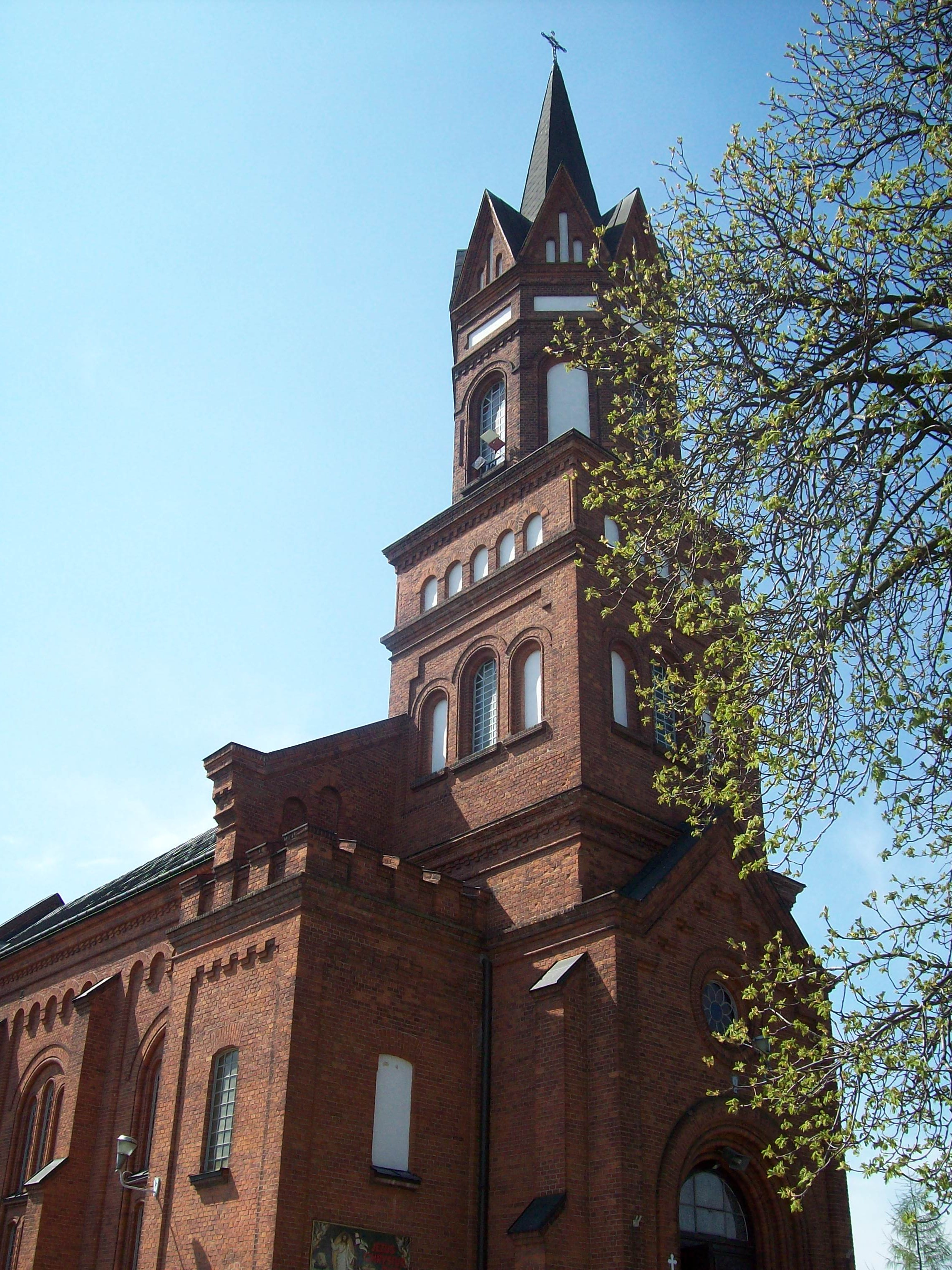 Church in Byton PL photo April 2012